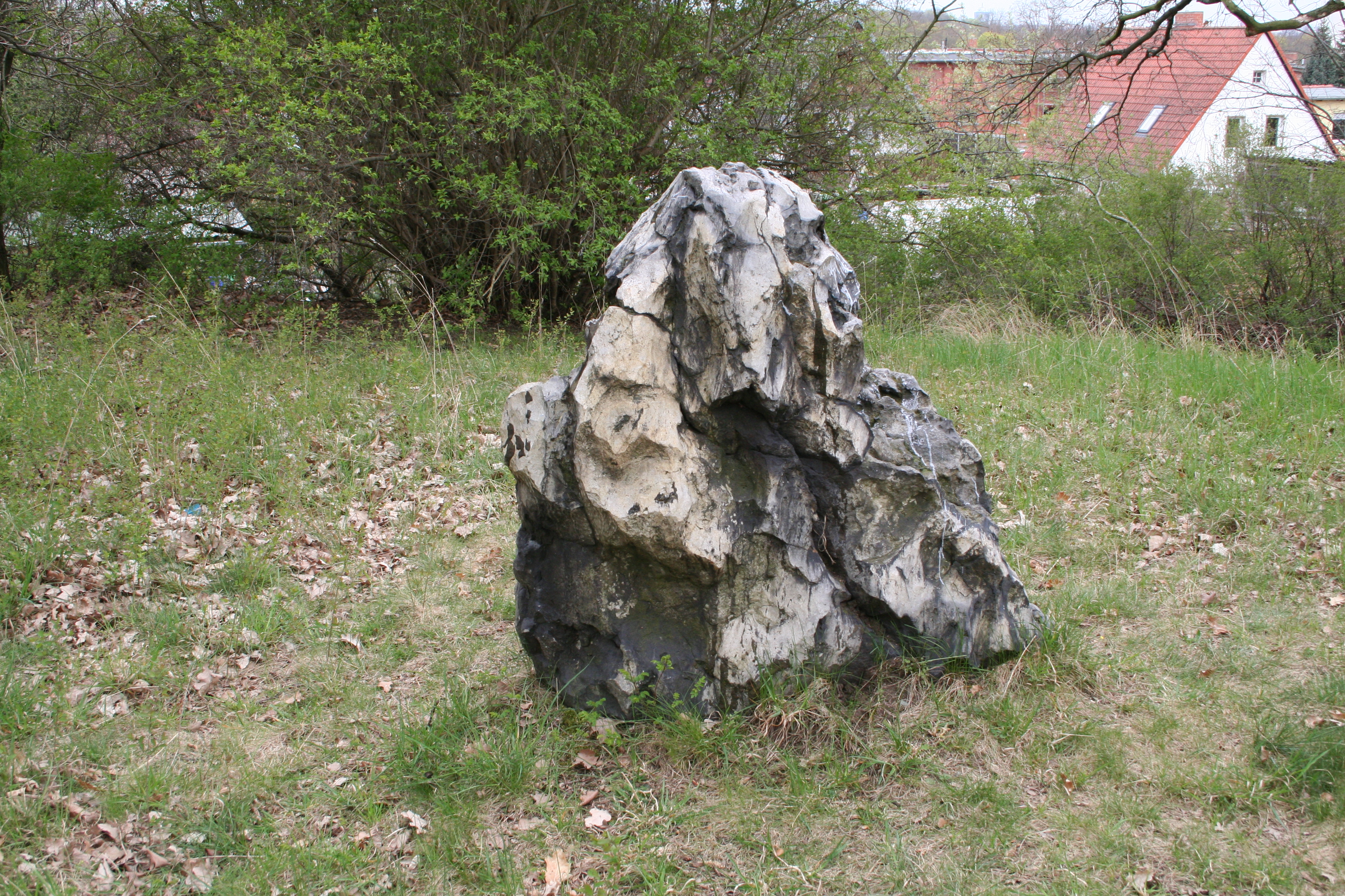 Tumulus of Kröllwitz, Halle/Saale